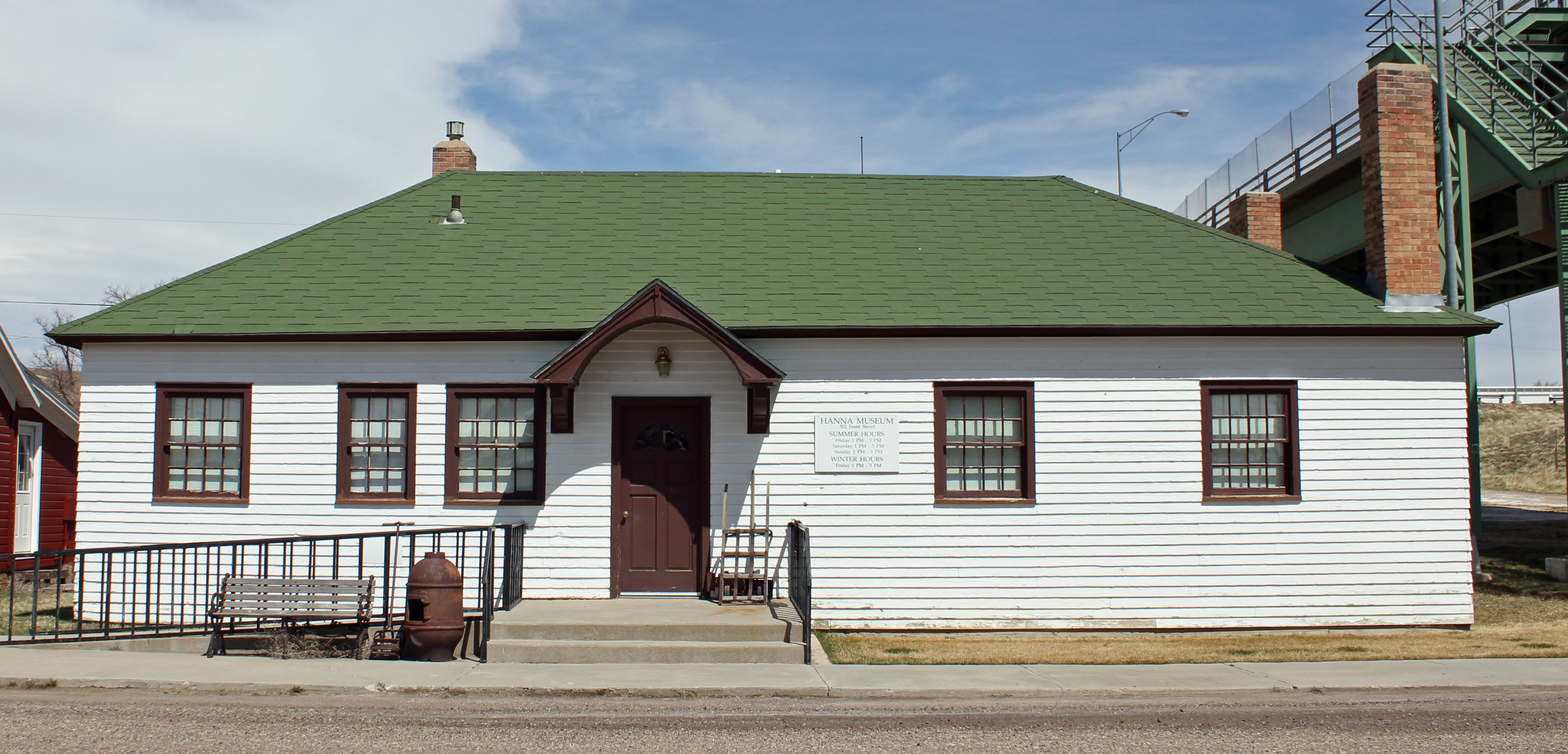 The Hanna Community Hall, located on Front Street in Hanna, Wyoming. The property is listed on the National Register of Historic Places. 48CR3764